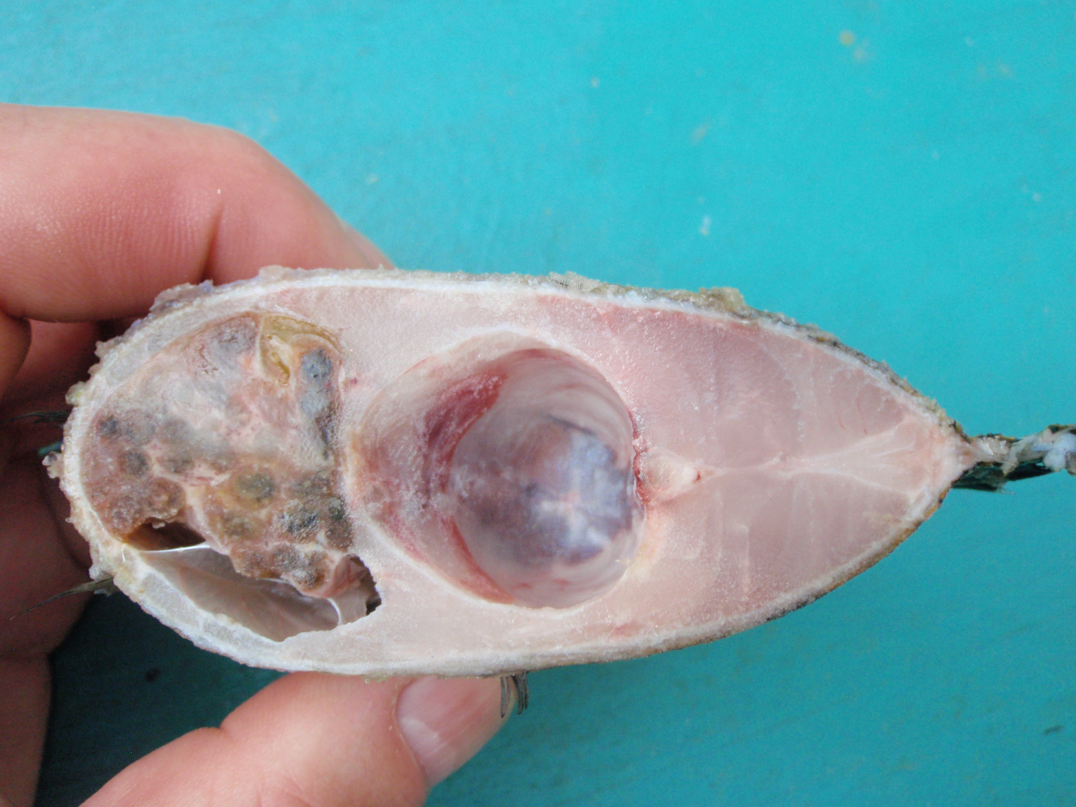 Barotrauma injury to tiger angelfish surfaced from 27m over about an hour